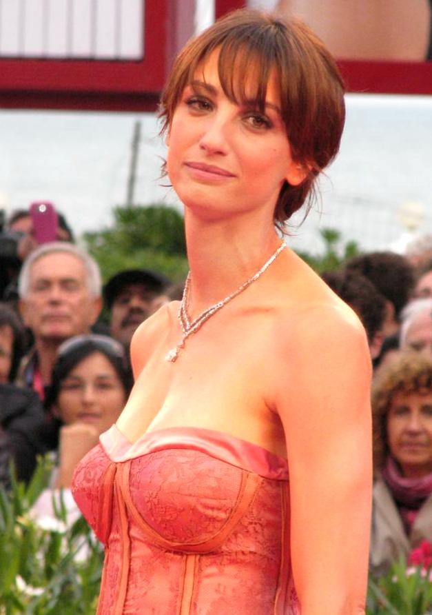 Italian actress Francesca Inaudi at 2010 Venice Film Festival for the film Noi credevamo